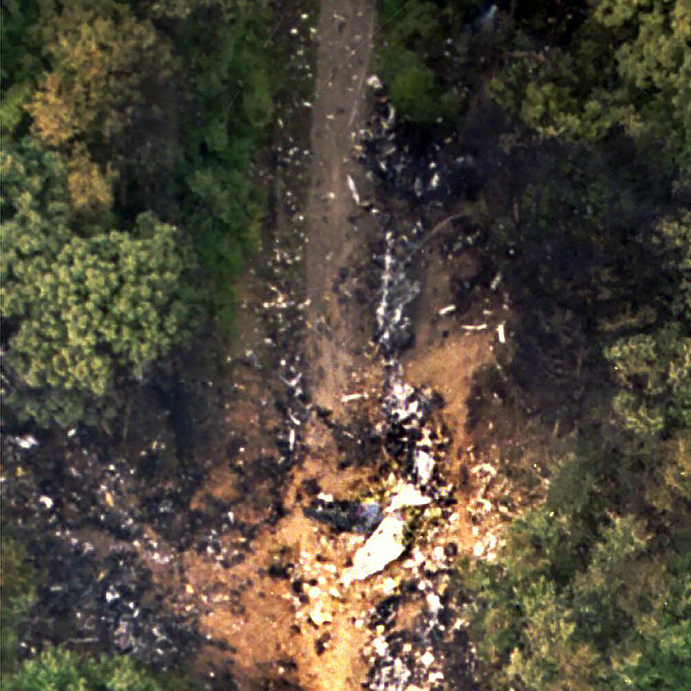 Impact crater of USAir Flight 427 taken by an NTSB official during the accident investigation.